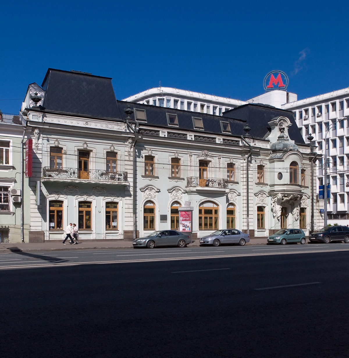 41, Prospekt Mira, Moscow. Contains work by Fyodor Schechtel, Ivan Kuznetsov, Sergey Konenkov